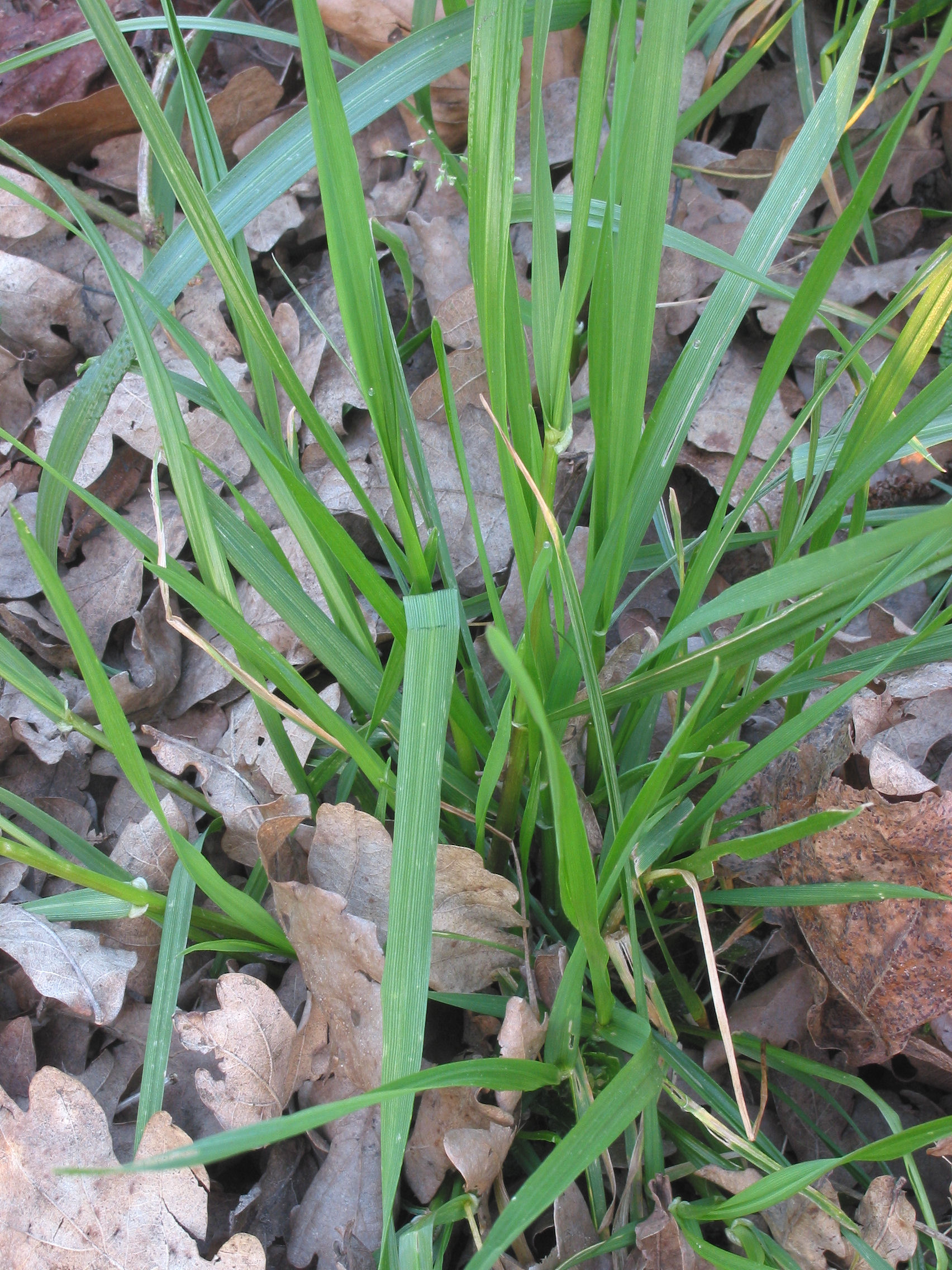 Lolium multiflorum tillers